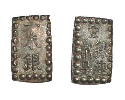 Kaheishi-1shugin